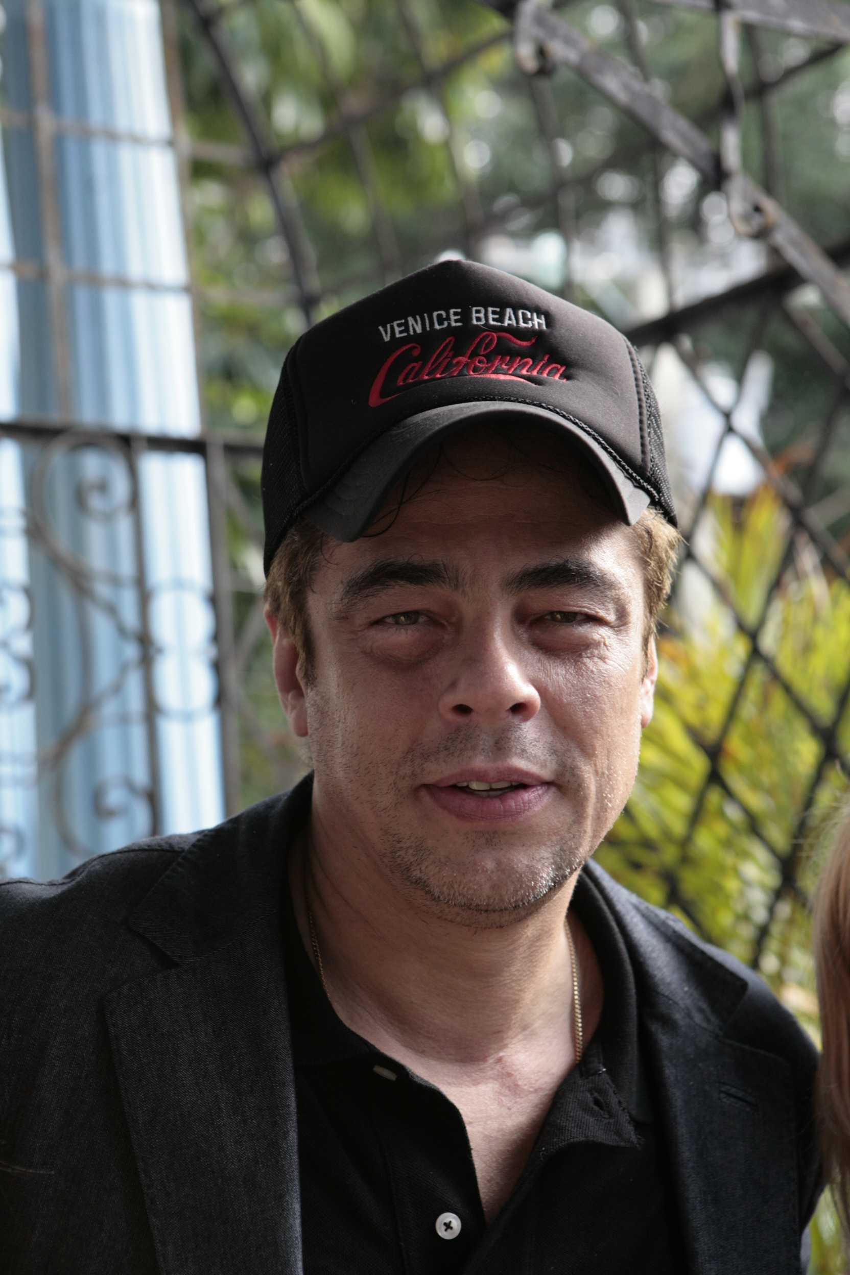 Benicio del Toro attending world première of "7 days in Havana", Havana, Cuba.